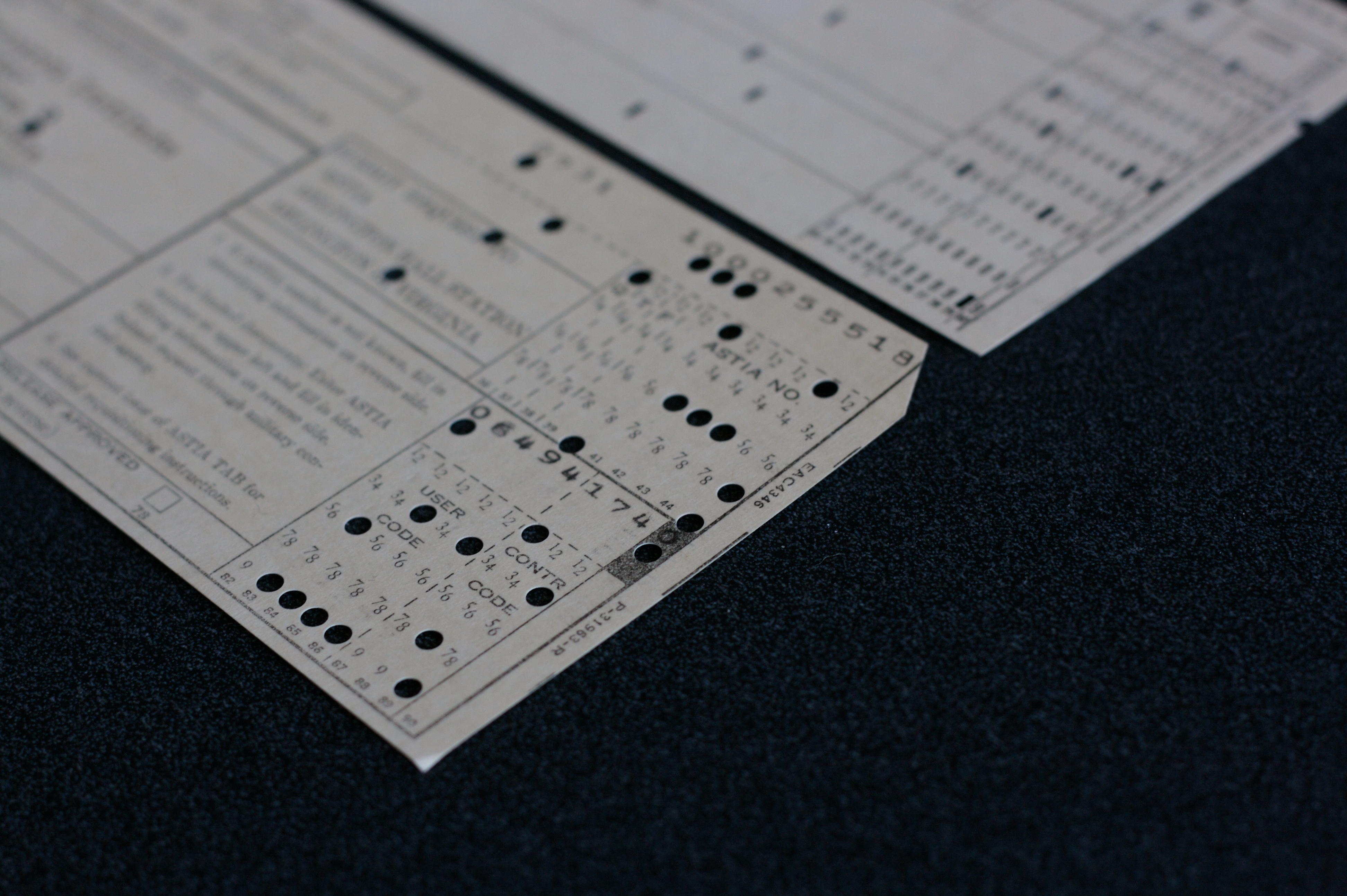 Remington Rand punched card at the bottom, IBM card at the top. Note that the Remington Rand card has round holes. There are 45 columns and two groups of six rows each that are encoded independently, for a total of 90 possible encoded characters. The IBM card has rectangular holes and 80 columns, with only one character per column.